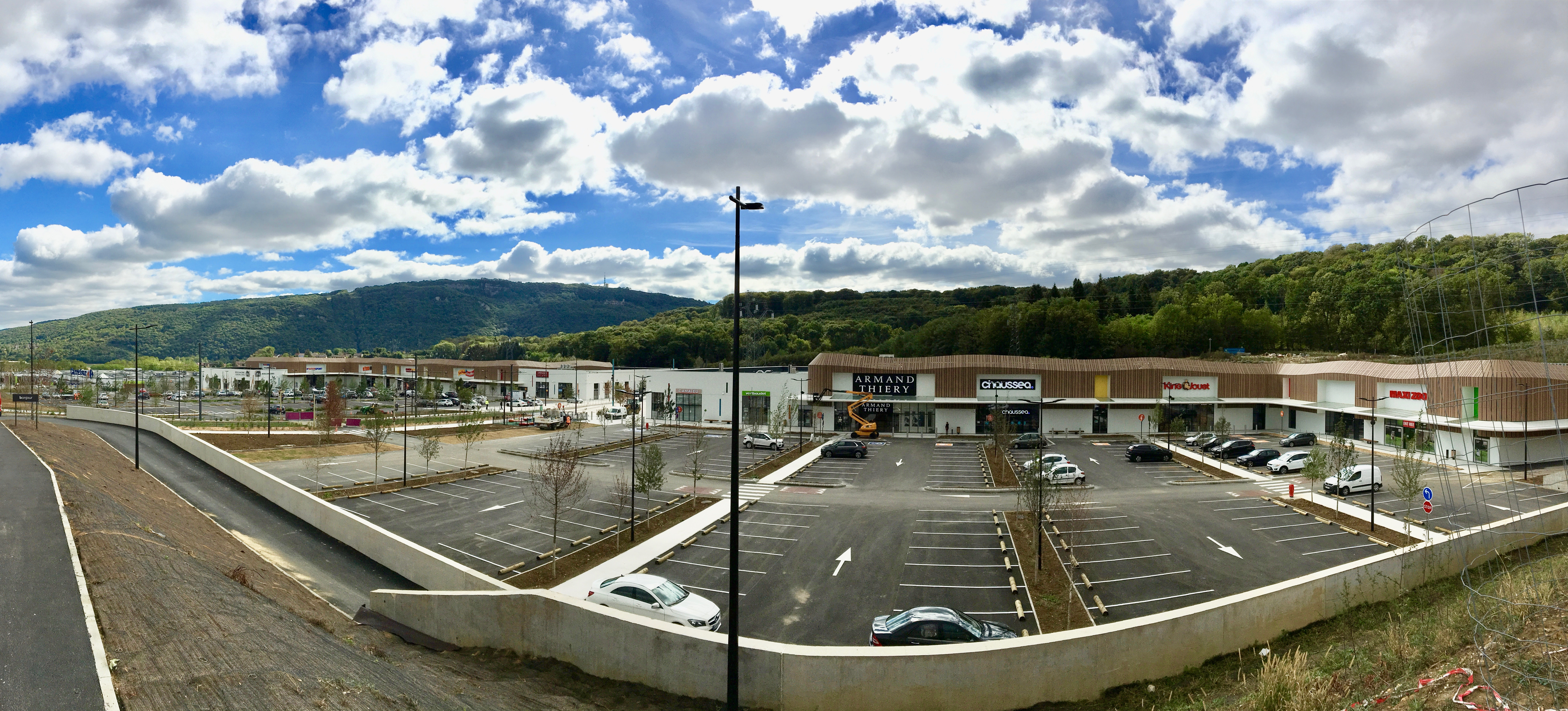 The Marnières, comercial area of Besançon (Doubs, France).